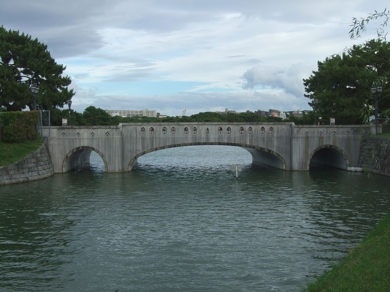 Ōhori Park Maizuru Bridge, Chuo Ward, Fukuoka City, Fukuoka, Japan.